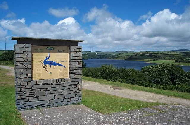 Llys-y-fran Reservoir and Country Park. There is a visitor centre on the site with a restaurant and a gift shop and many outdoor events are organised throughout the year.